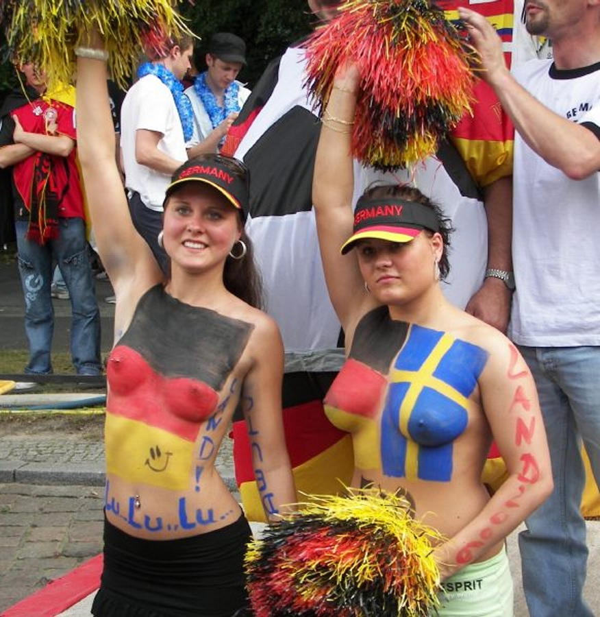 Bodypainted fans, Soccer World Cup, Germany 2006